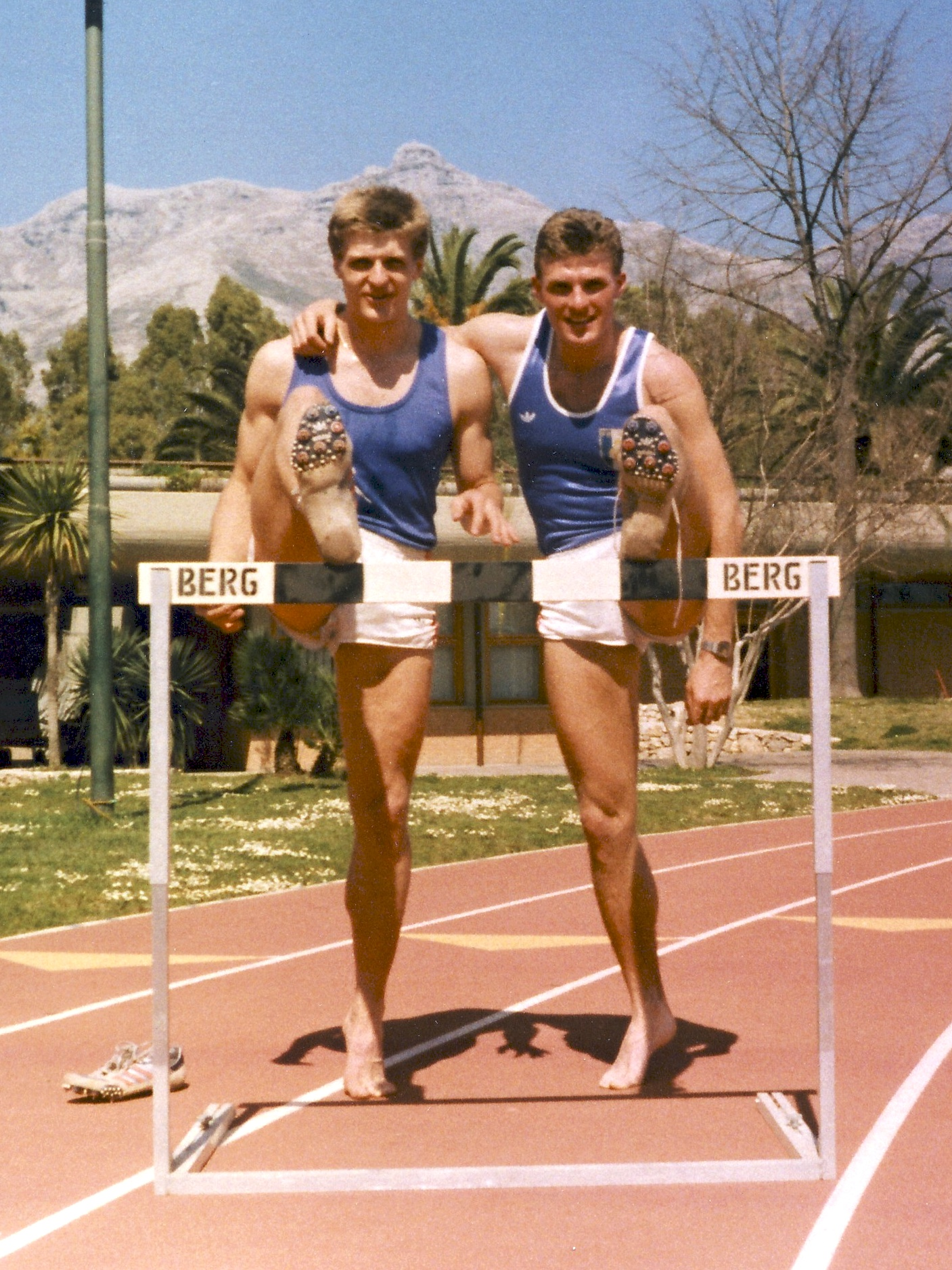 after race